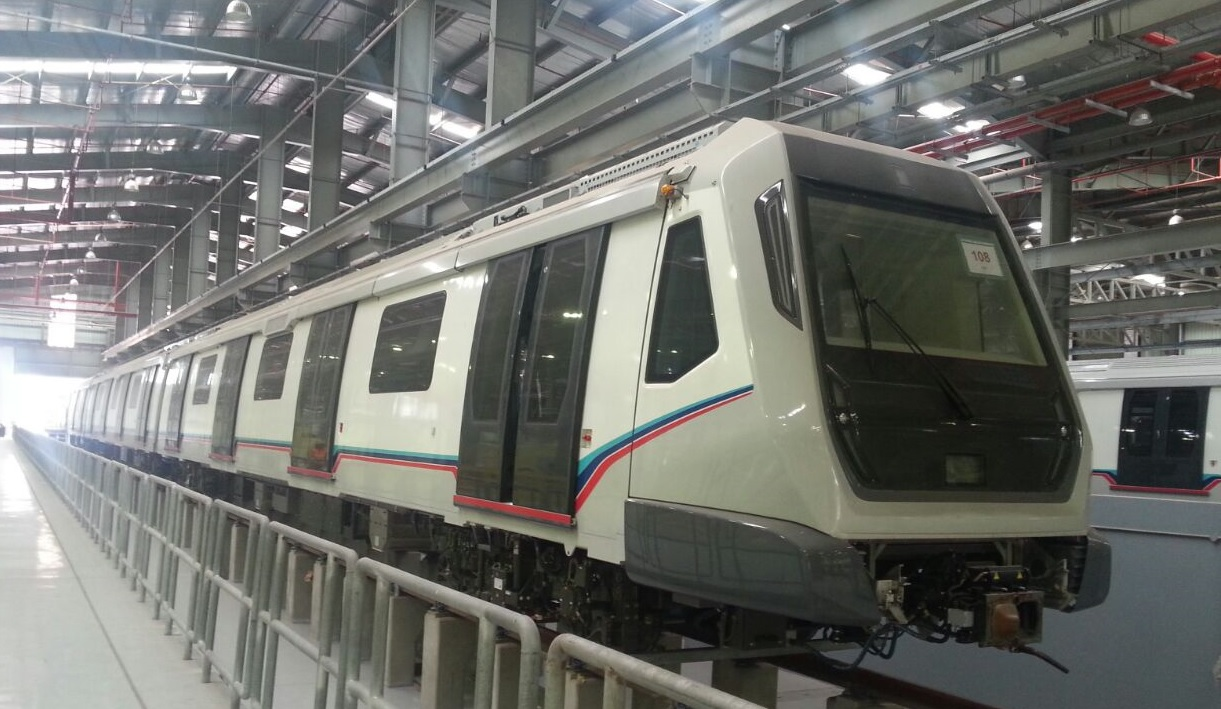 Siemens Inspiro train designed by BMW Group Designworks for MRT SBK